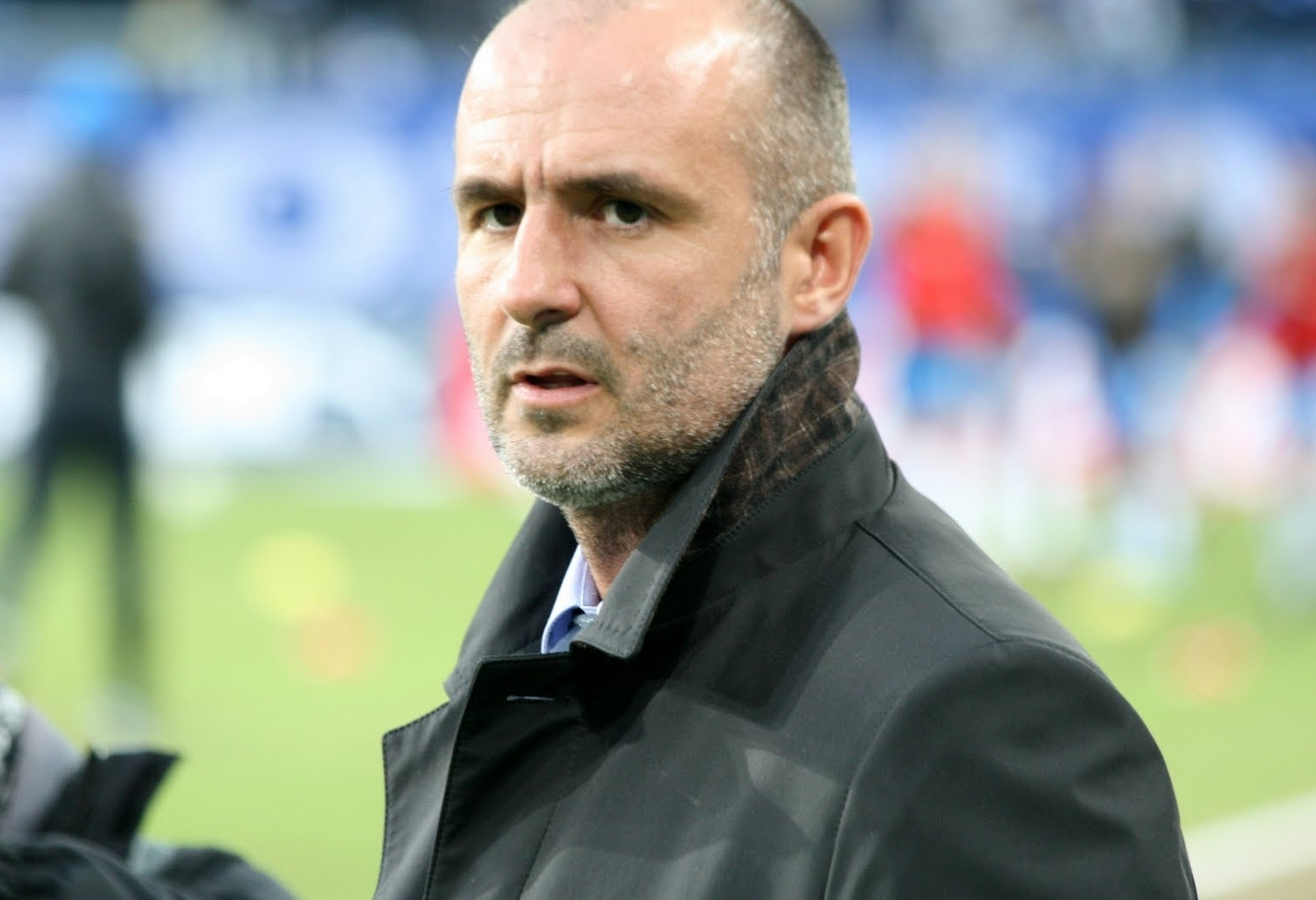 Michał Probierz, Jagiellonia Białystok's coach (2008-2011).